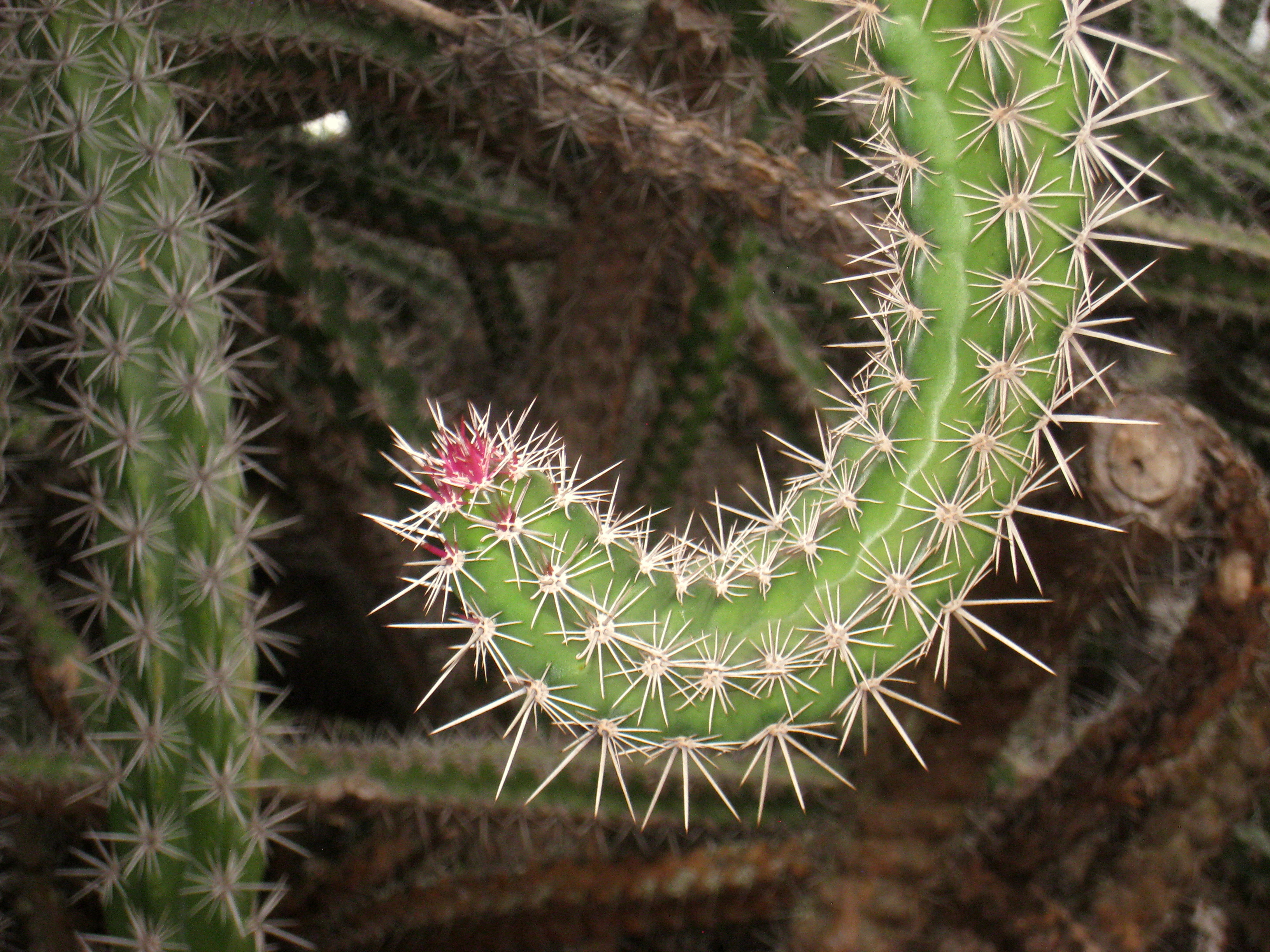 Rathbunia alamosensis in the Koko Crater Botanical Garden, Honolulu, Hawaii, USA.